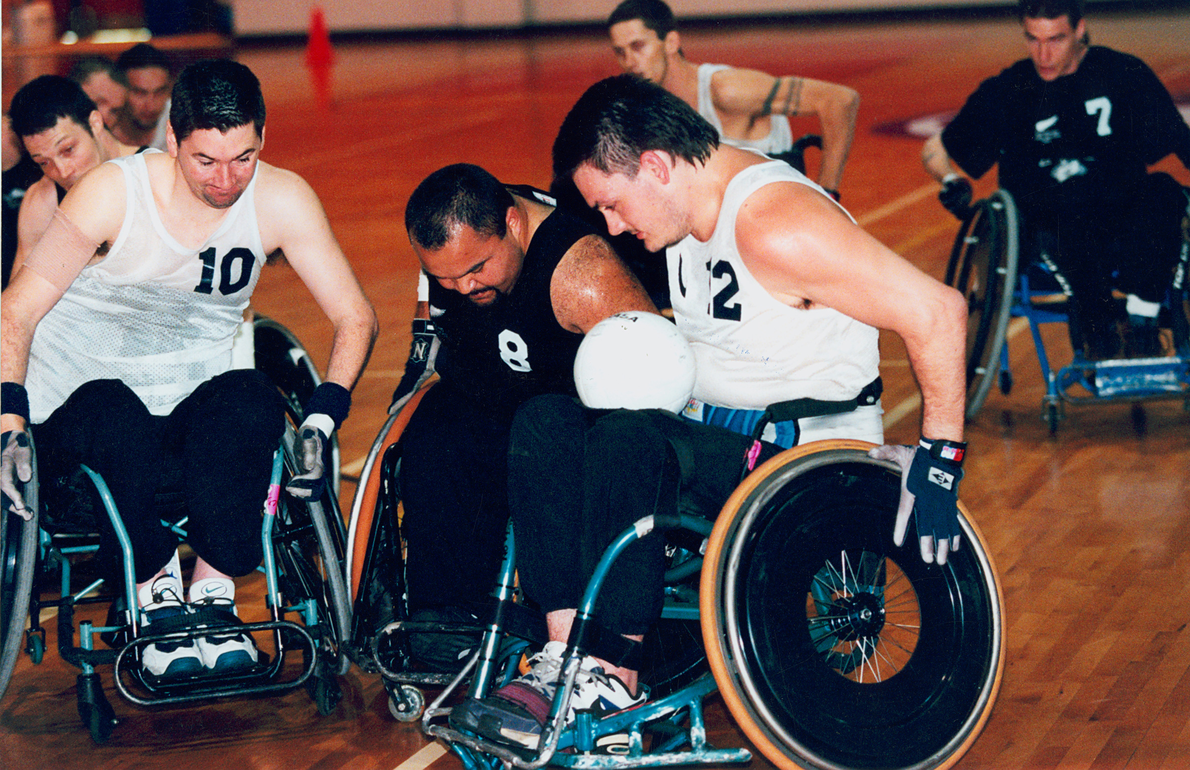 Australian wheelchair rugby players Garry Croker (left, in white) and Steve Porter (right, in white), battle to overcome the defence of the New Zealand "Wheelblacks" in this demonstration sport at the 1996 Atlanta Summer Paralympic Games